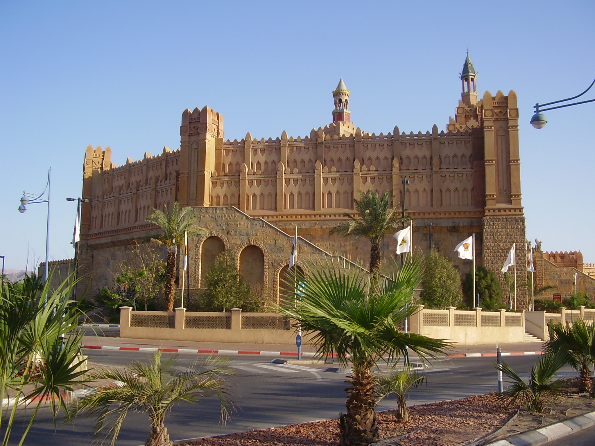 kings city in eilat